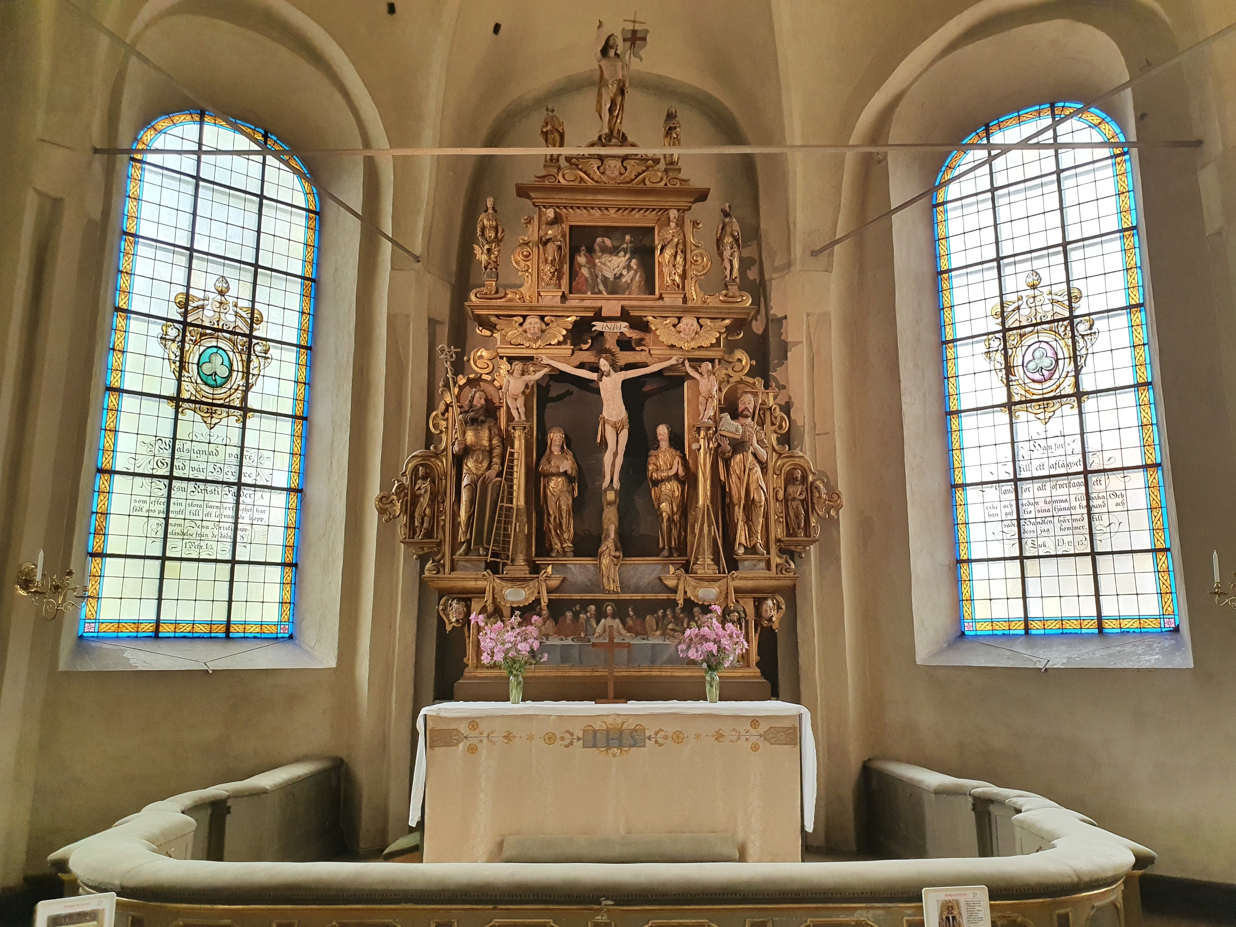 The altar in Heliga Trefaldighets kyrka, Arboga.